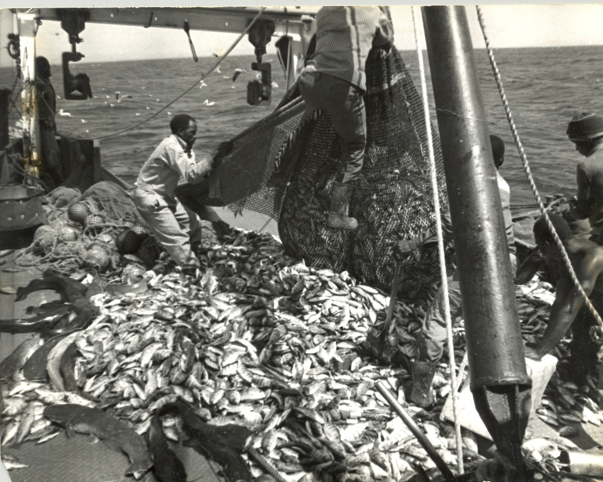 Commercial fishing on Lake Malawi